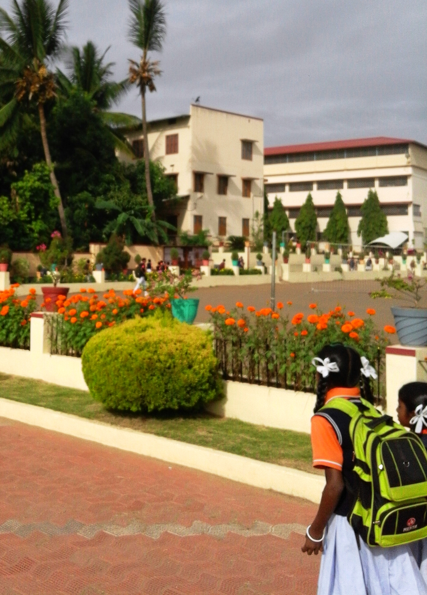 Hunsur Area, Mysore district, Karnataka state, India